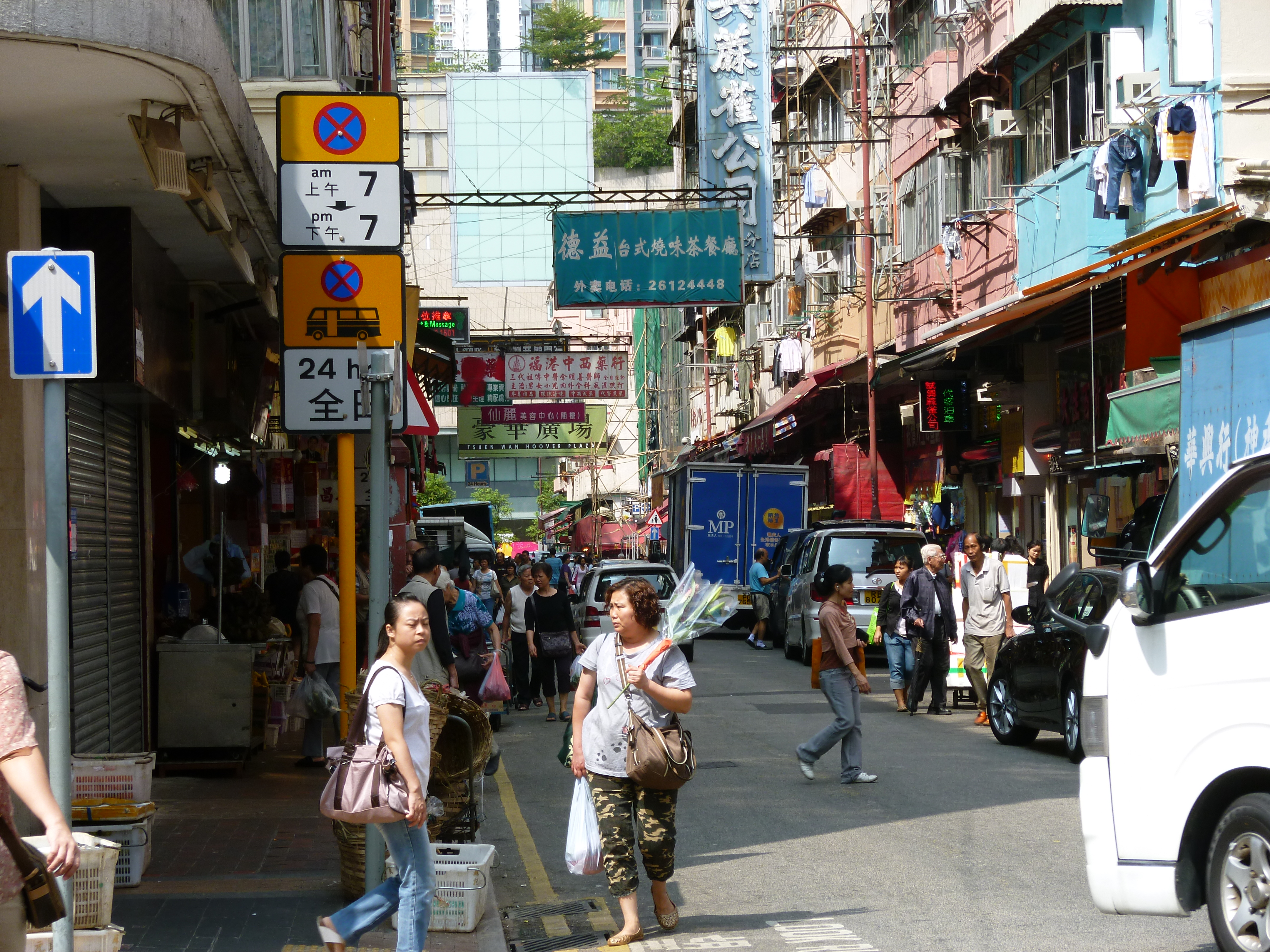 Ho Pui Street, Tsuen Wan, Hong Kong